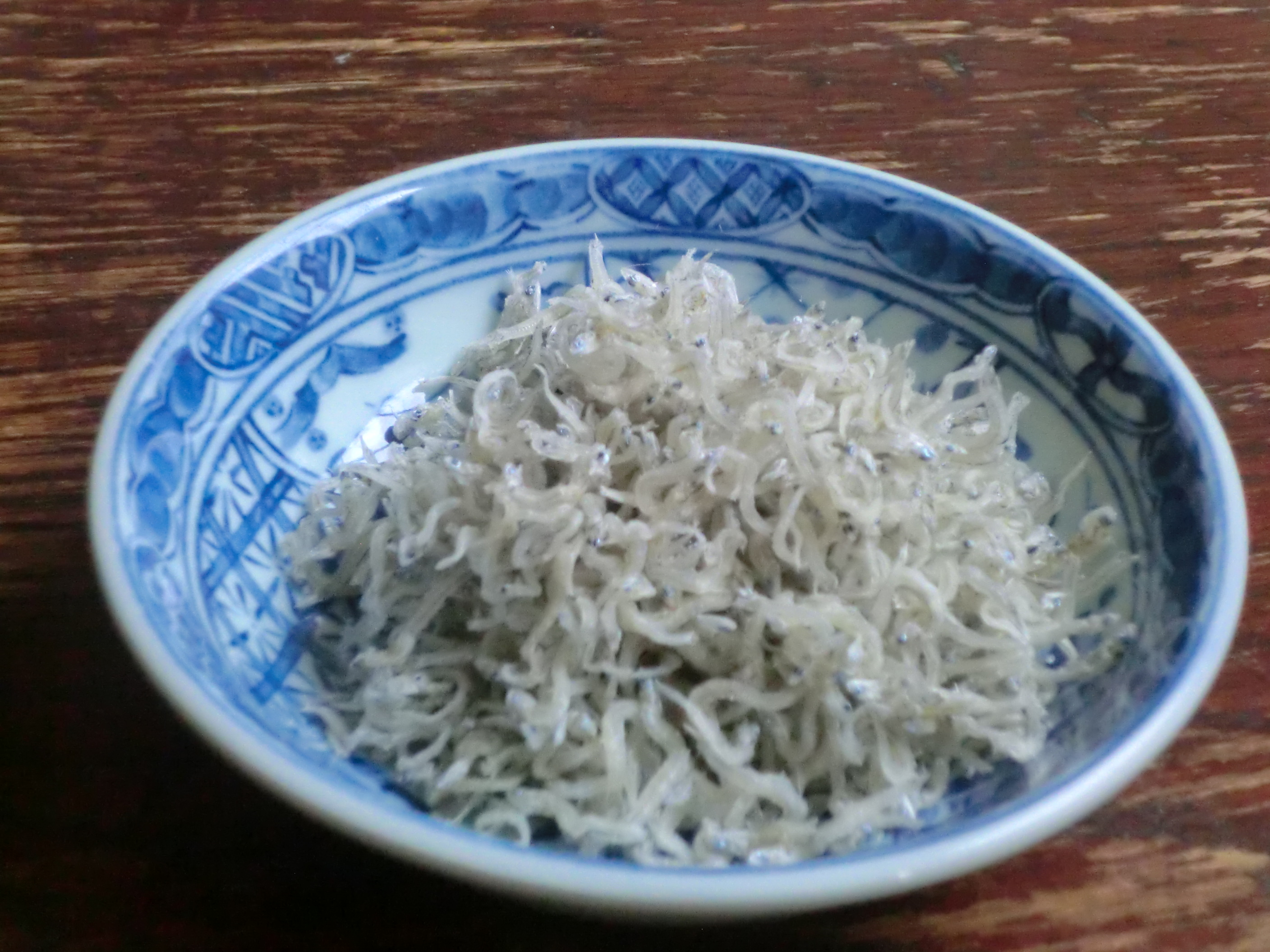 Chirimen-jako(dryed fish) from Beppu bay, Oita, Japan.